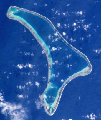 NASA astronaut image of Ravahere Atoll, Tuamotu Archipelago, French Polynesia